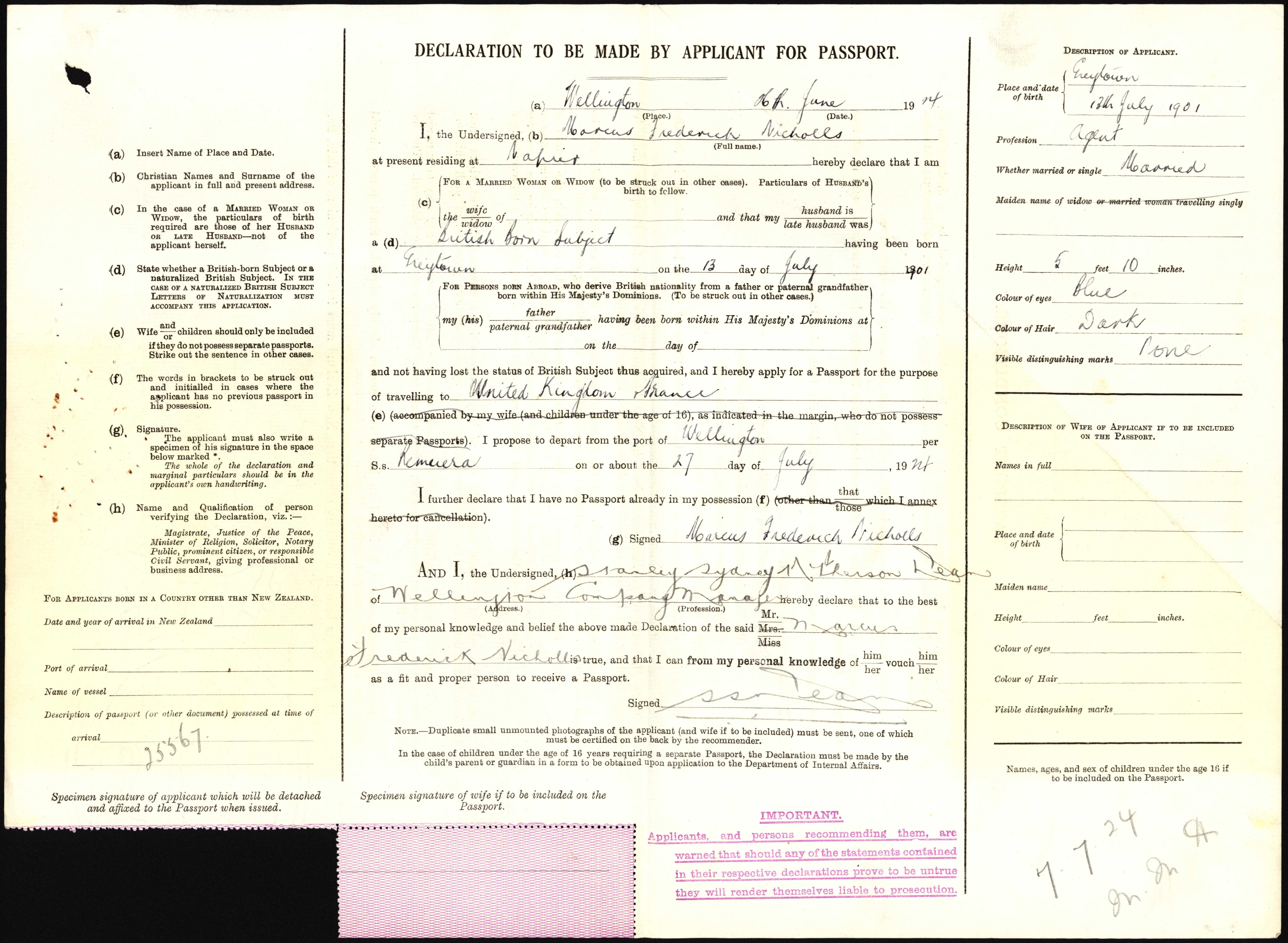 ACGO 8333 IA1 1349 / 15/11/17721 Marcus Nicholls passport application (1924)